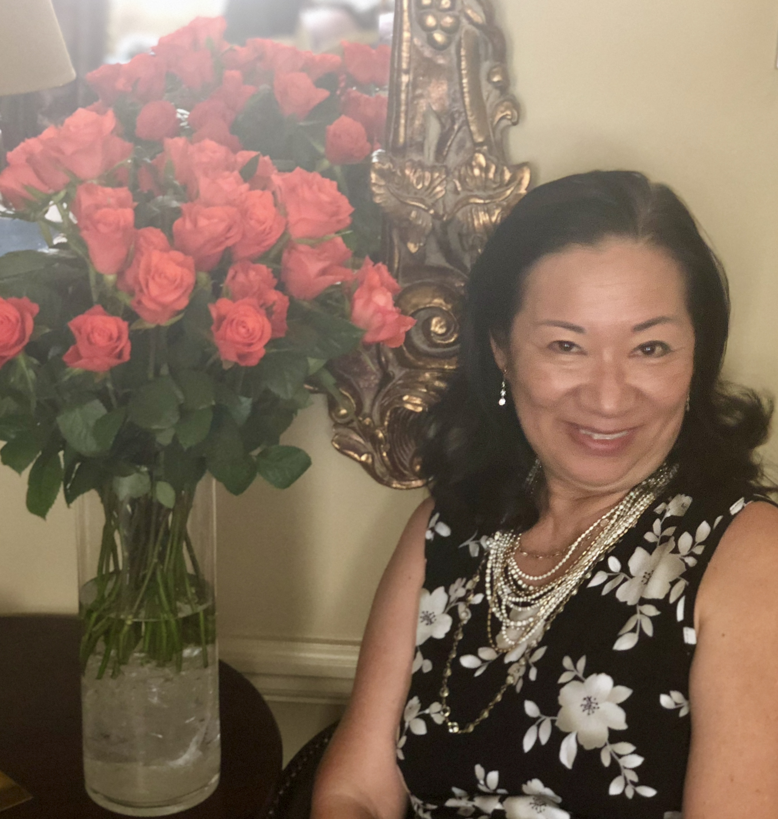 Claire Chao, 2018